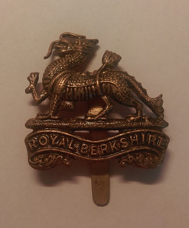 Photo of Royal Berkshire Regiment Cap Badge from personal collection